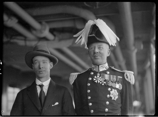 Sir Colonel Sir William Robert Campion KCMG, DSO, TD, DL and son.